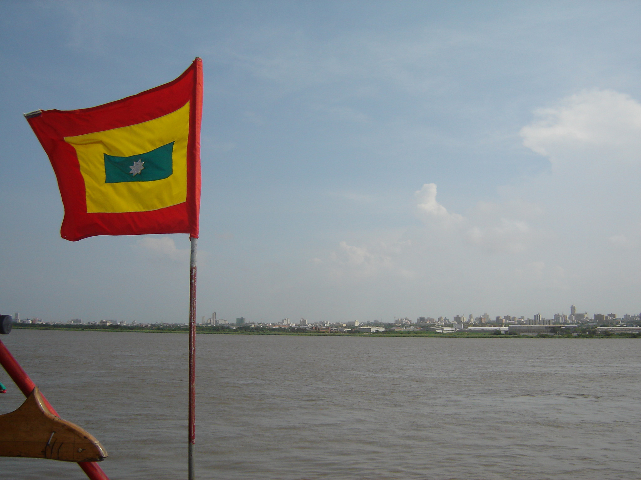 View of Barranquilla from the Magdalena River